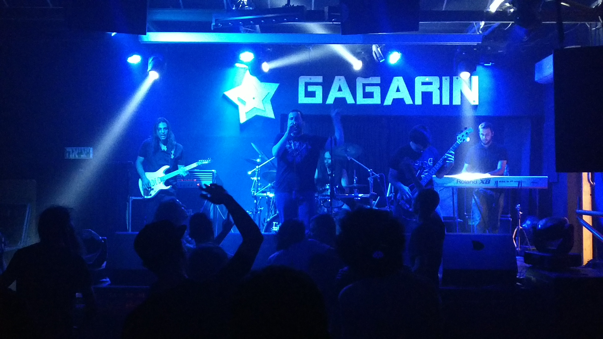 The band Edgend in a show